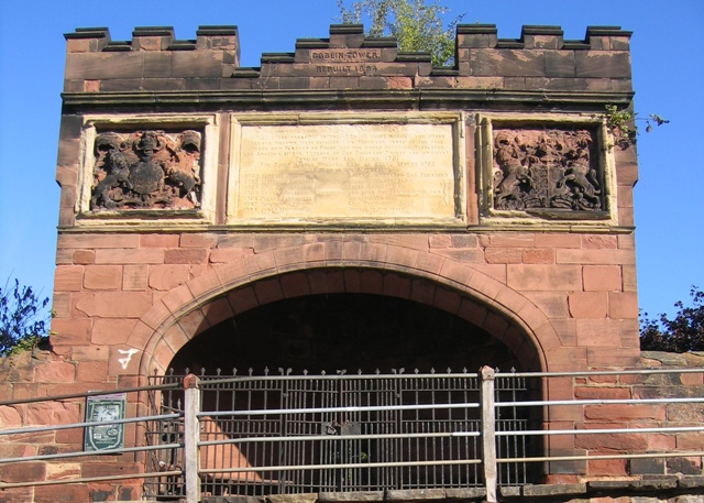 Goblin Tower on the City Walls A close-up of the Goblin Tower, which is also known as Pemberton's Parlour after the 18th century Mayor of Chester, John Pemberton. Pemberton used this sheltered vantage point to watch over his workmen on the rope walk below. This area of the city walls was badly damaged during the English Civil War and the large inscribed stone records the repairs that were made around the year 1700. The stone is now too weathered for the top lines to be read, however, a full transcription is available on the website: "IN THE 7th YEAR OF THE GLORIOUS REIGN OF QUEEN ANNE, DIVERS LARGE BREACHES IN THESE WALLS WERE REBUILT AND OTHER DECAYS THEREIN REPAIRED. TWO THOUSAND YARDS OF THE PACE WERE NEW FLAGGED OR PAVED AND THE WHOLE IMPROVED, REGULATED AND ADORNED AT THE EXPENSE OF ONE THOUSAND POUNDS AND UPWARDS" The names of the various Mayors and Aldermen are then listed: Thomas Hand Esq 1701 The Right Honble. William Earl of Derby, Mayor 1702 Who died in his Mayoralty 1702 Michael Johnson 1703 Matthew Anderson 1704 Edw.Partington 1705 Edward Puleston 1706 Pulest Partington 1707 Humphrey Page 1708 James Mainwaring ESQS.MAYORS Roger Comberbach Esq.Recorder William Wilson, Aldn. Peter Bennet, Aldn. And upon the death of the said William Wilson, Edw.Partington, Aldn. Justice of the Peace MURENGERS (Murengers are the people who are responsible for the upkeep of the city walls.)